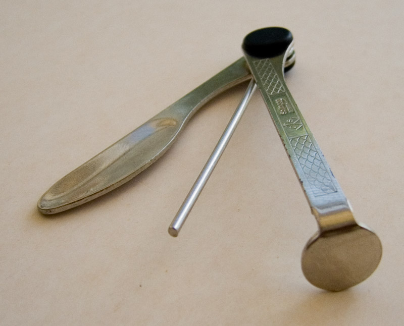 Pipe tool